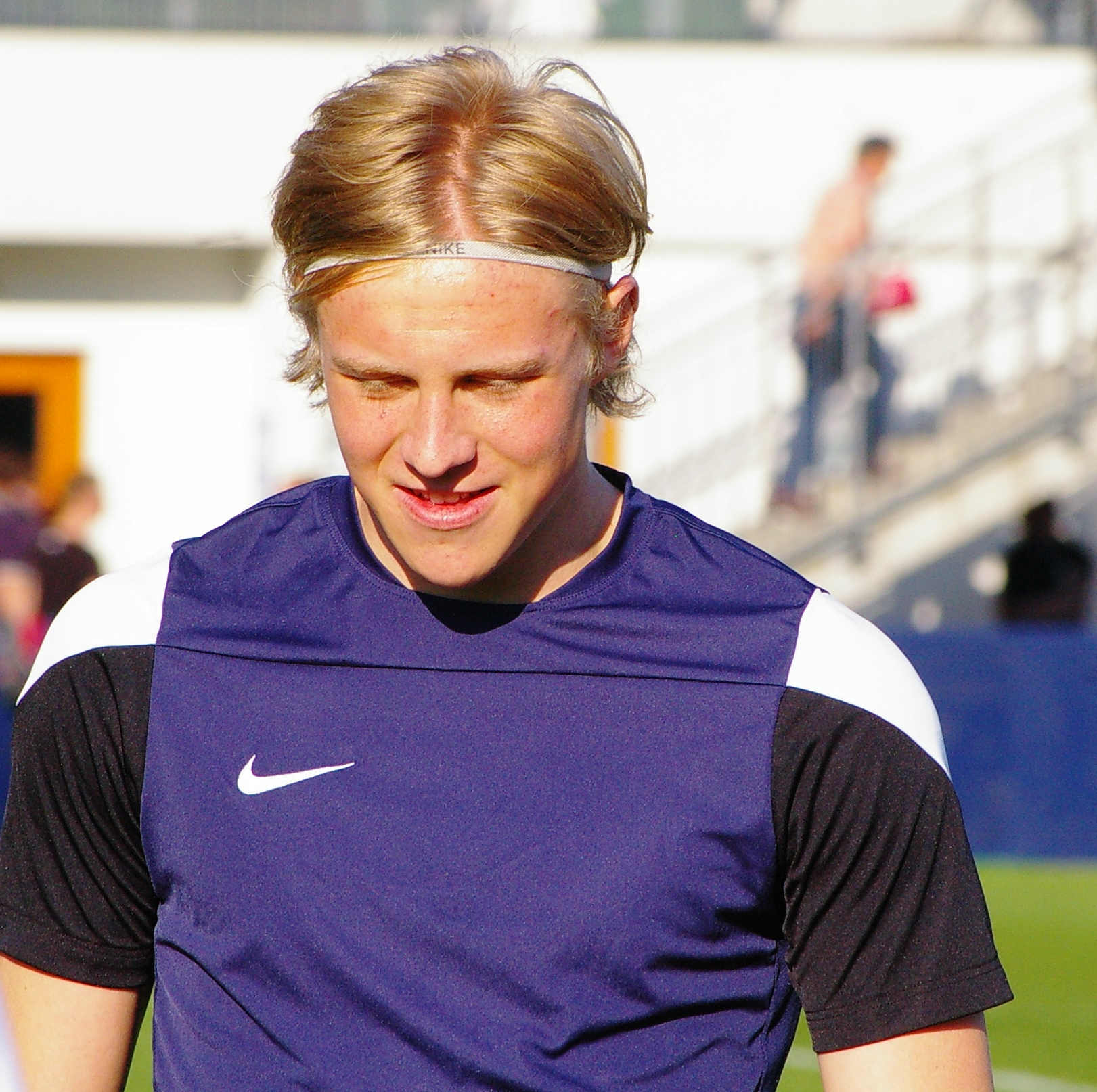 league match Austria 2nd league